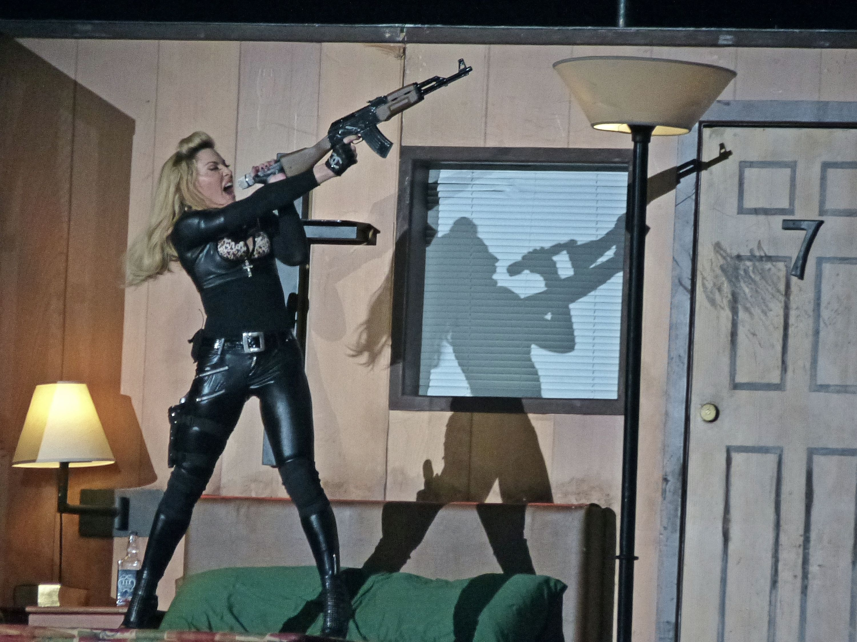 MDNA Tour, Córdoba, Argentina